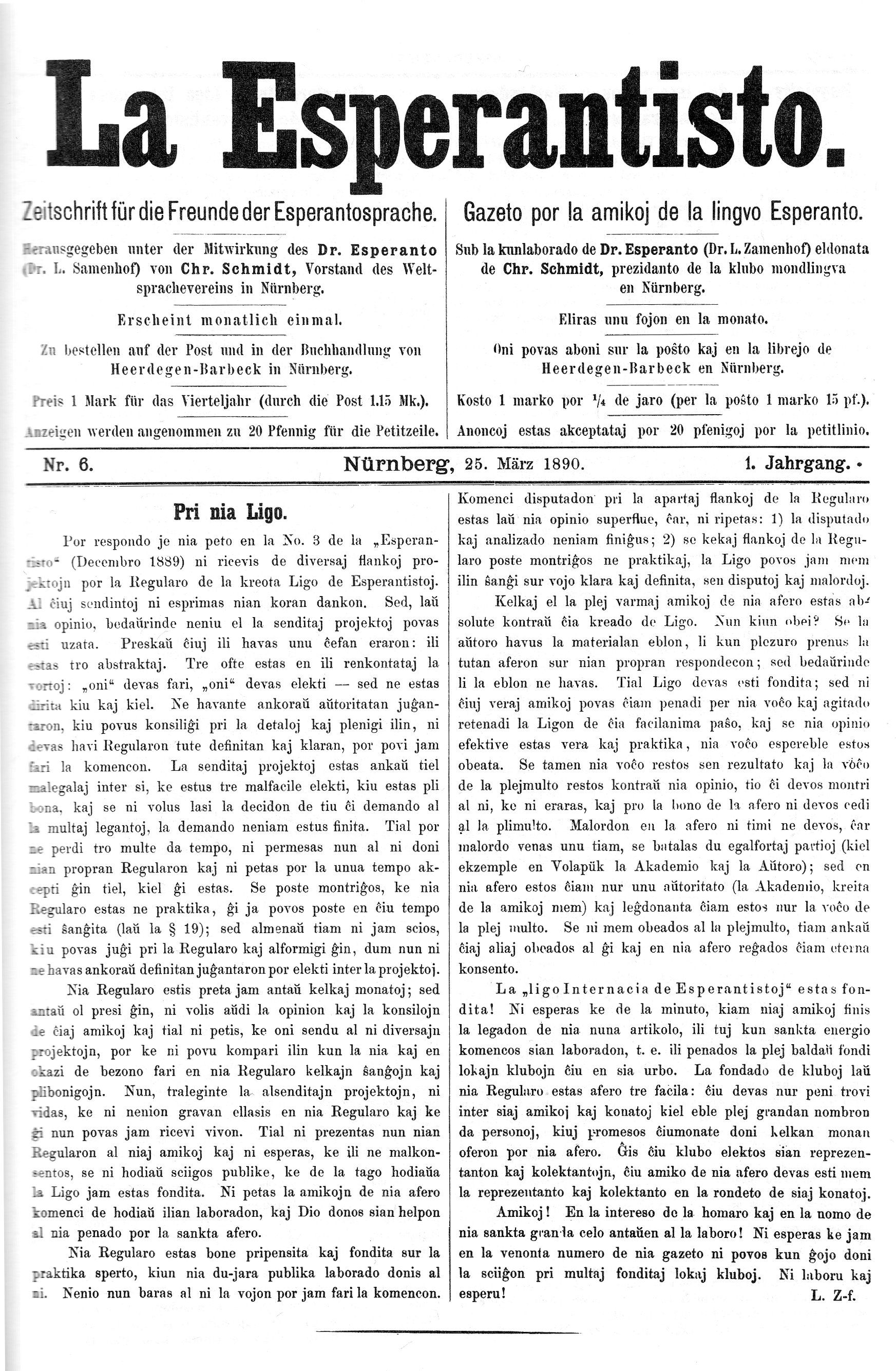 La Esperantisto, March 1890, with the infamous "Ligo" project